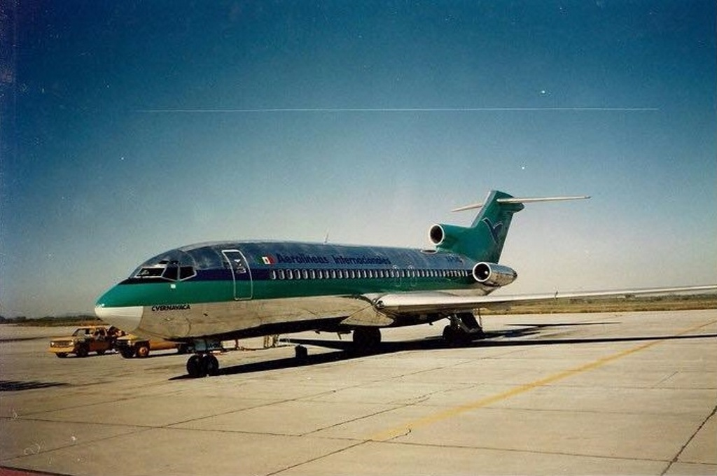 Boeing 727 XA-SKC Aerolineas internacionales